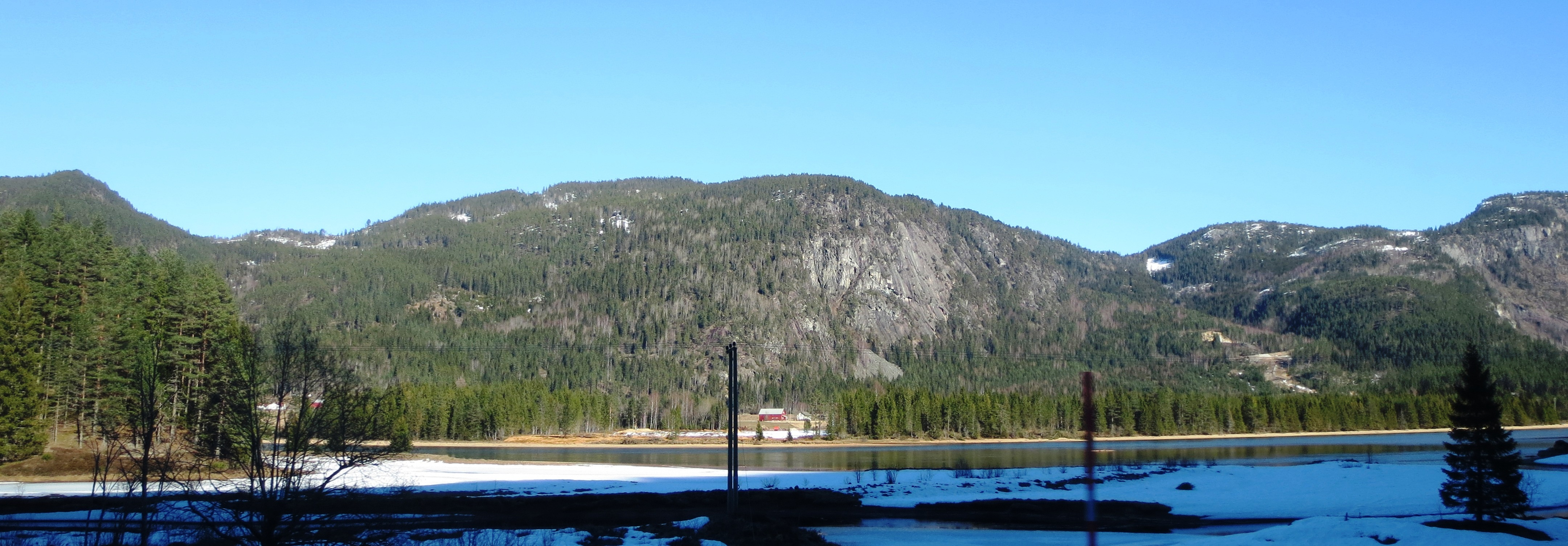 Image from the Ose township surroundings of Bygland municipality. In the Setesdalen valley, Aust-Agder county, Norway.